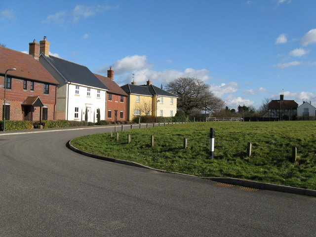 The Green at Dial Post Incidentally the road is called The Green